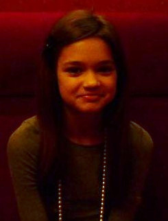 A photo of Ciara Bravo.